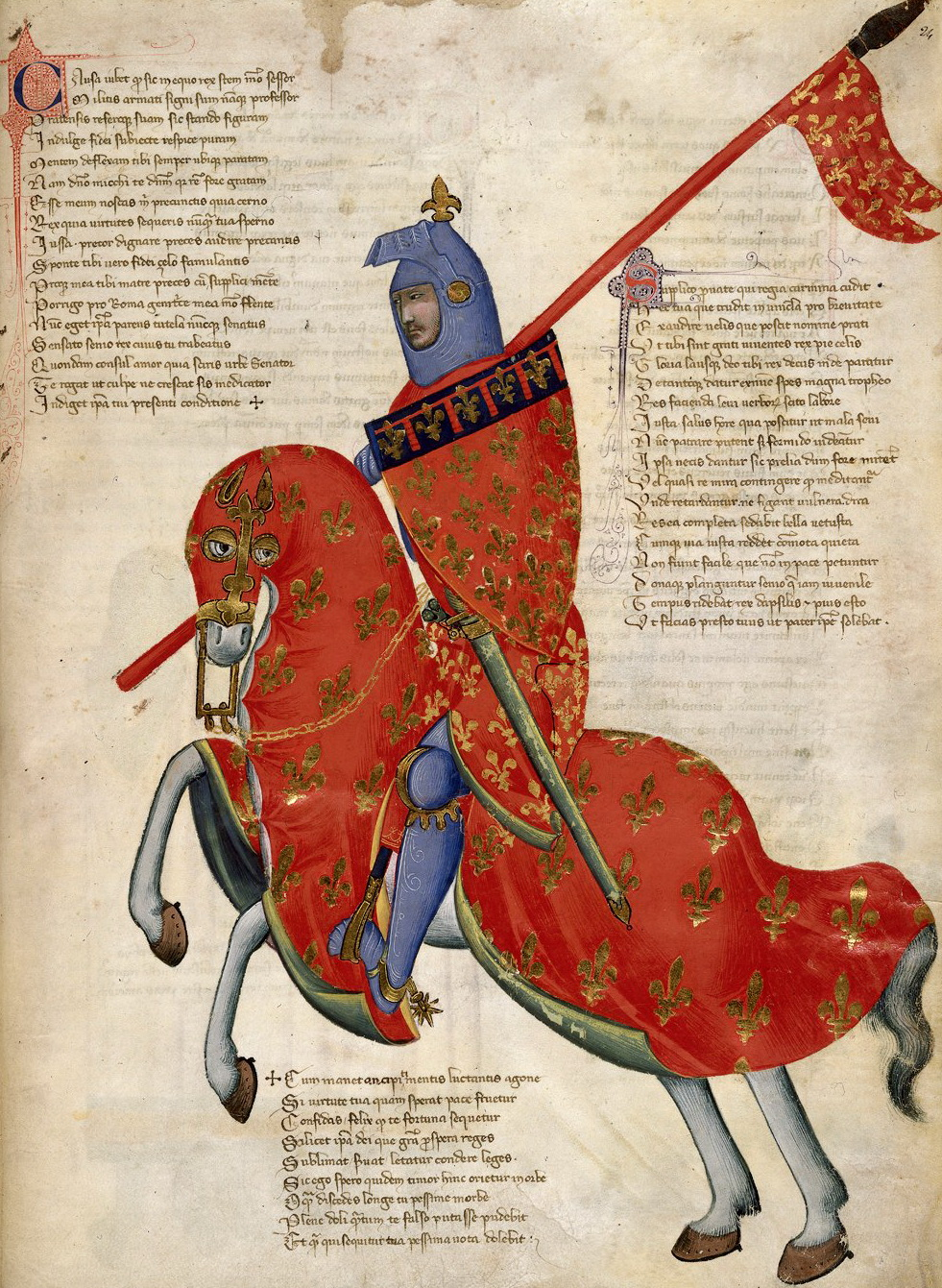 A knight from Prato (Tuscany). (British Library, Royal 6 E IX f. 24)